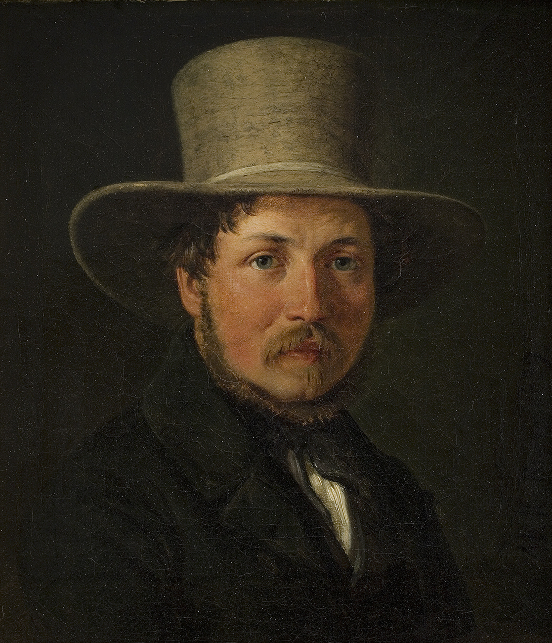 Købke and Marstrand were both born in 1810 and attended the Academy in Copenhagen.